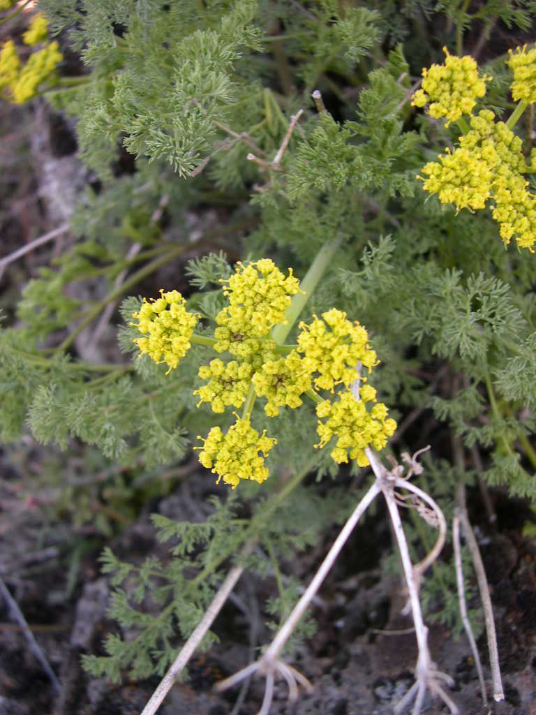 Lomatium grayi in southwest Idaho